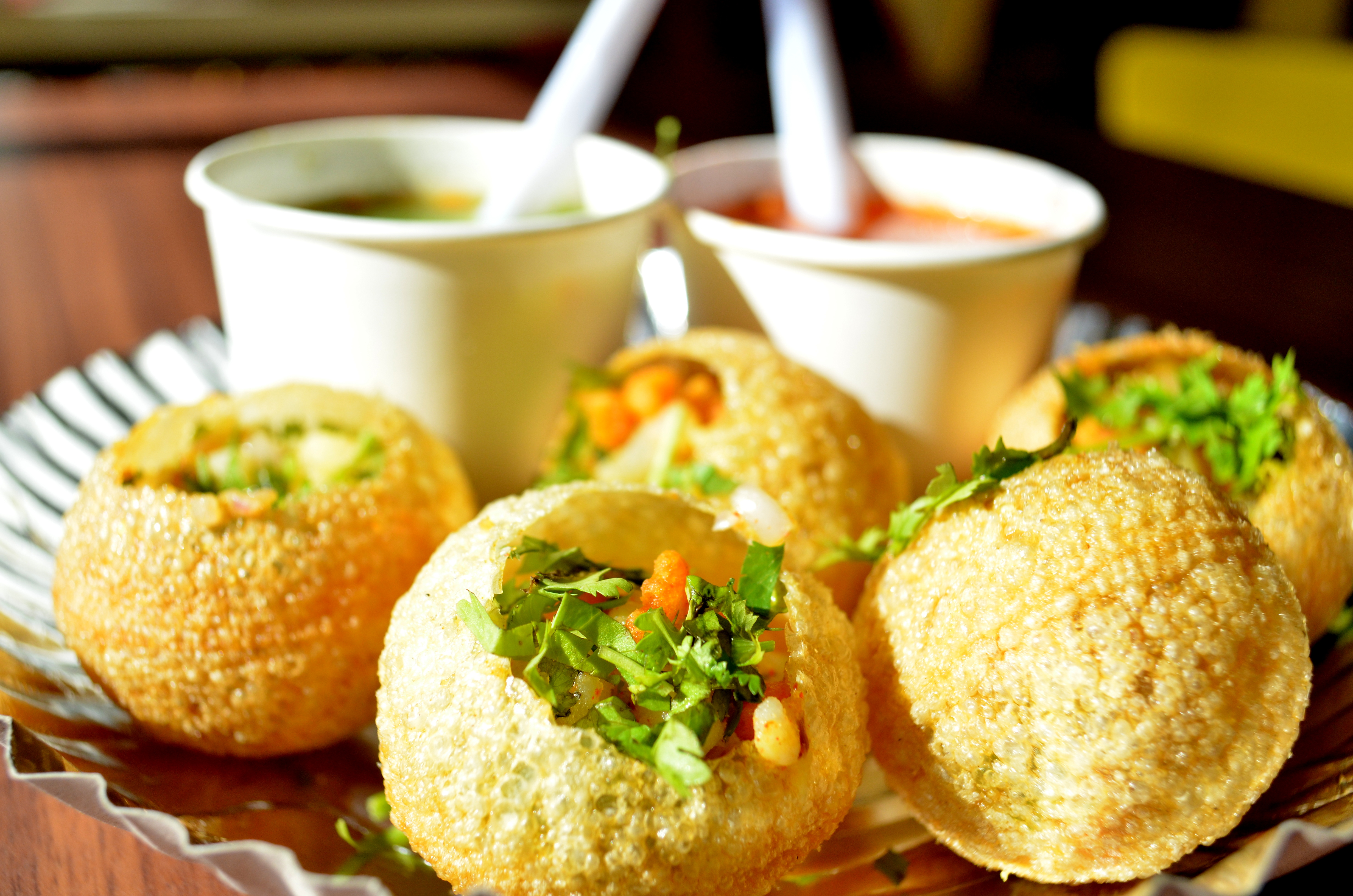 The favourite Indian snack!